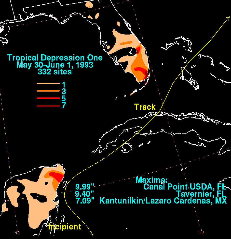 Storm total rainfall map of Tropical Depression One during May and June 1993.